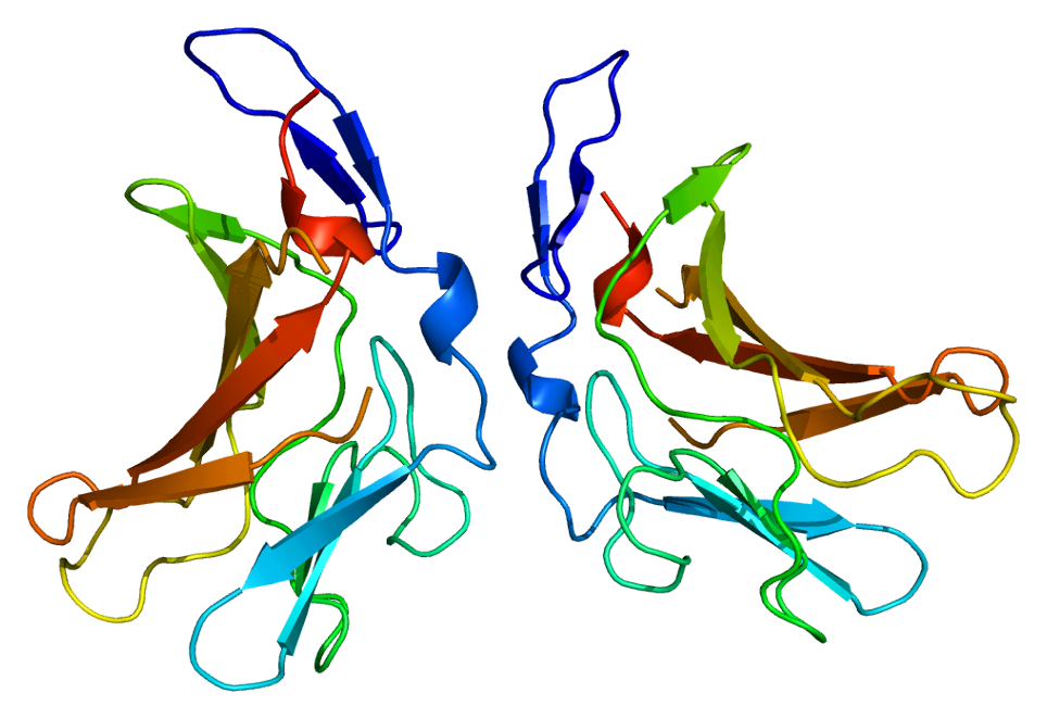 Structure of the IGF2R protein. Based on PyMOL rendering of PDB 1e6f.